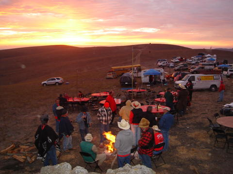 ECV Chapter 1.5 clampout near Cayucos California